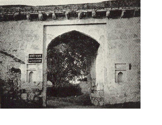 Bhanderi gate of the fort of Jhansi through which Rani Laxmibai escaped from the fort during the 1857 Indian war of independence.